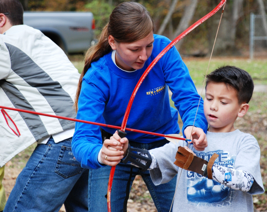 Archery instructor Sara M. Deen of Atlanta, La., assists a camper with loading an arrow onto the bow during an archery lesson for children of Louisiana National Guard Soldiers at the 4th annual Operation Military Kids, Camp Lagniappe in Pollock, La., Nov. 23.